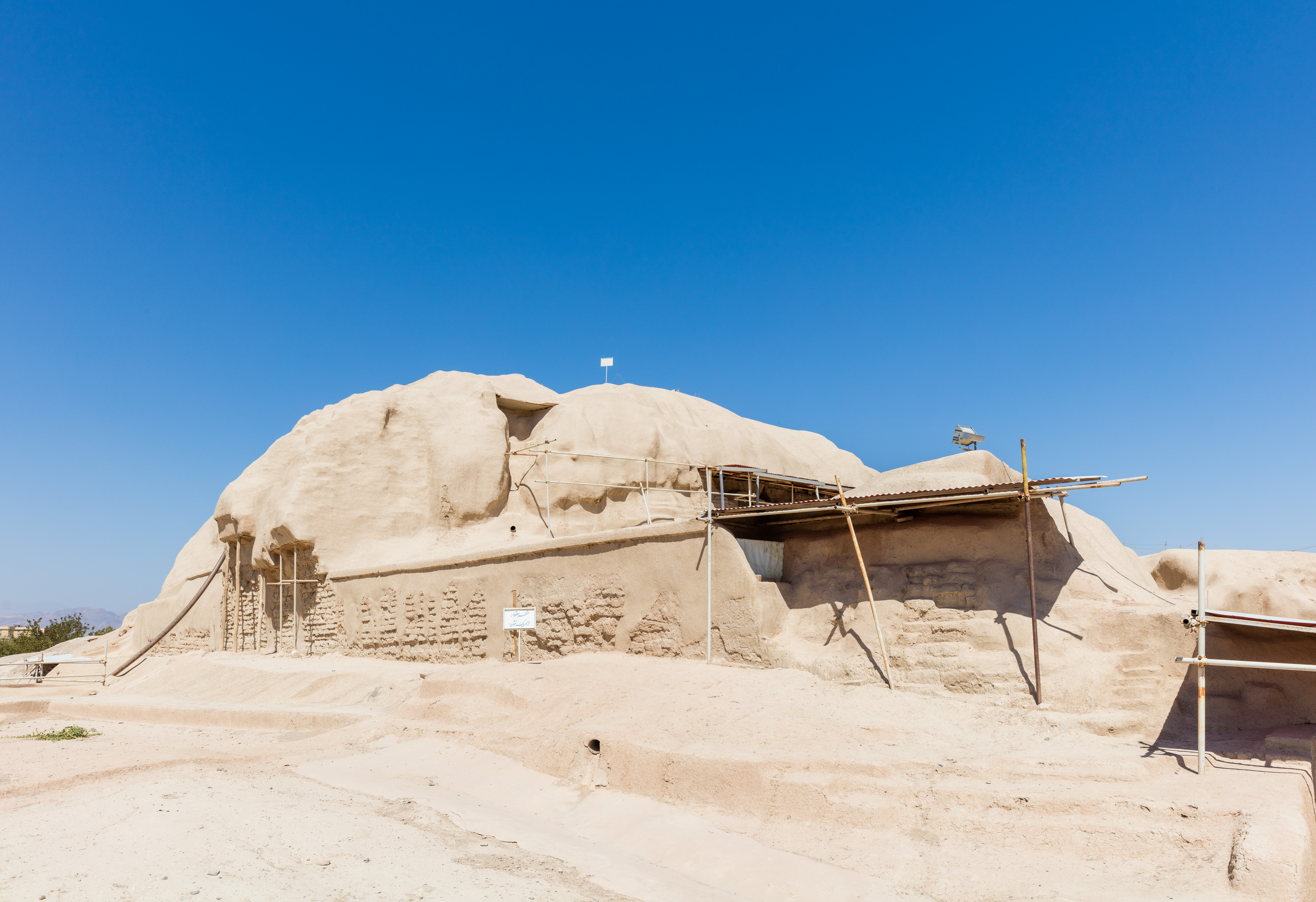 Tepe Sialk, Kashan, Iran